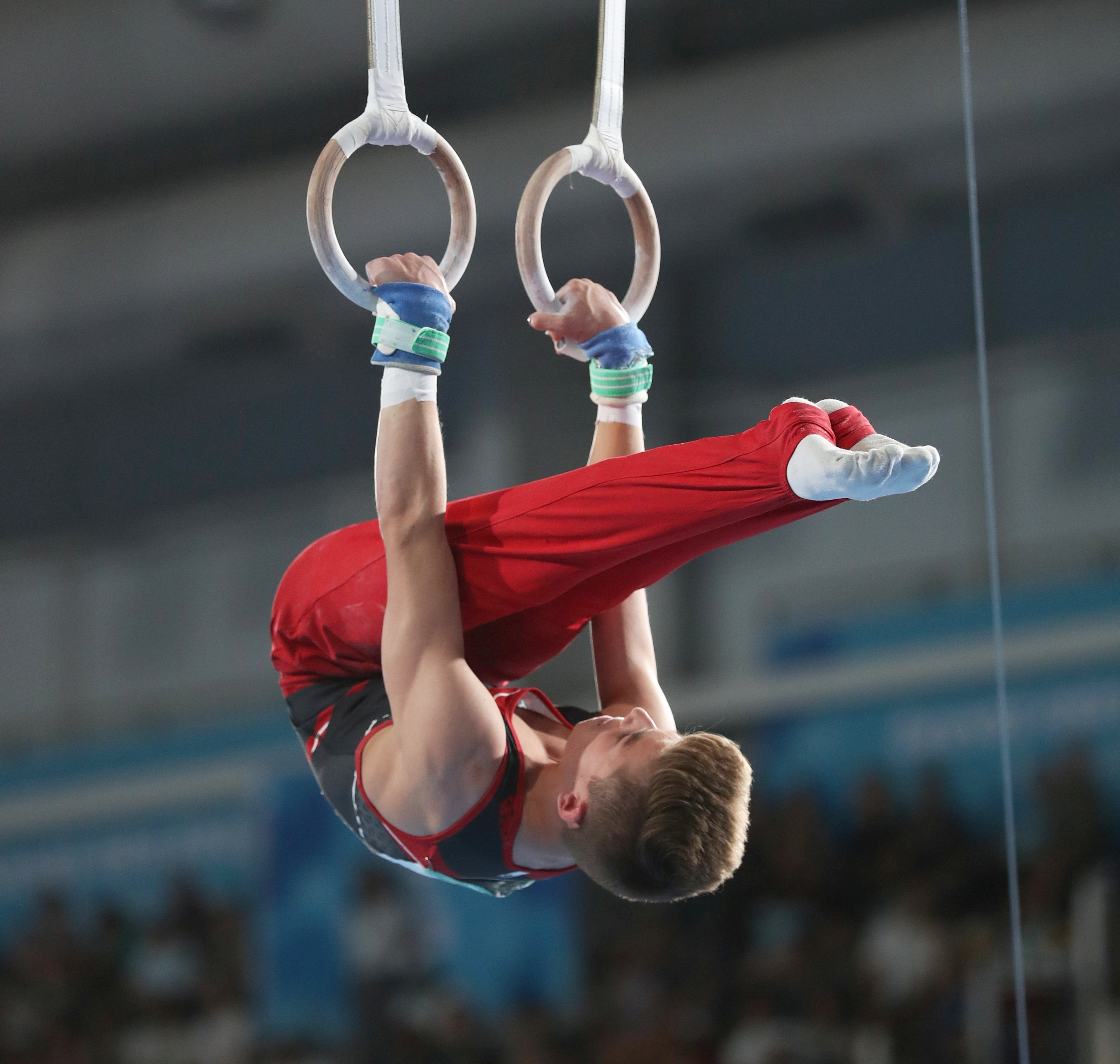 Still rings apparatus final of the boys' artistic gymnastics at the 2018 Summer Youth Olympics in Buenos Aires on 14 October 2018. Depicted: Félix Dolci.